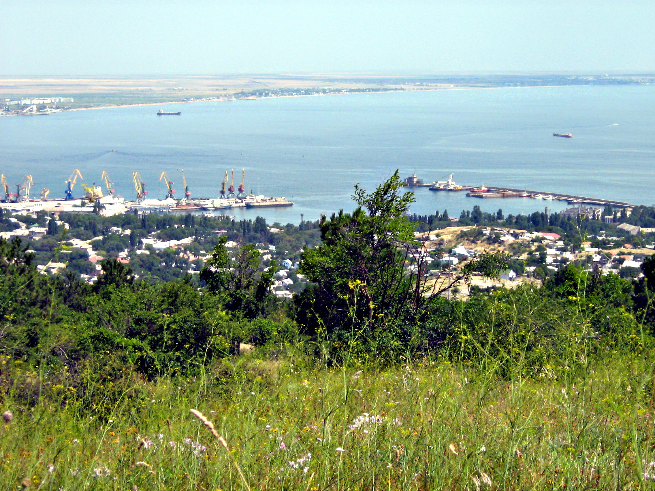 Crimean mountains. Theodosia. Tepe-Oba. View to sea port.